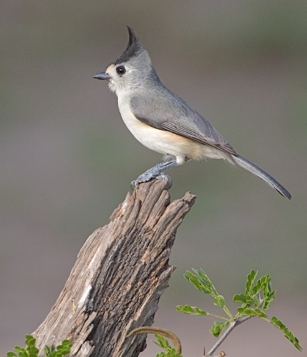 The Black-crested Titmouse, Baeolophus atricristatus. Photographer releases to public domain (note: the site used to be 'public domain', it has since changed to Creative Commons licensing [1].